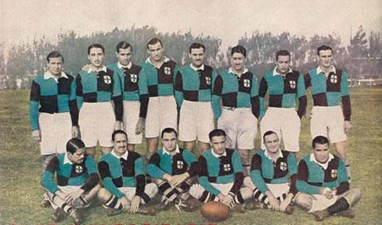 The Club Universitario de Buenos Aires rugby union team, 1931 Torneo de la URBA champion.